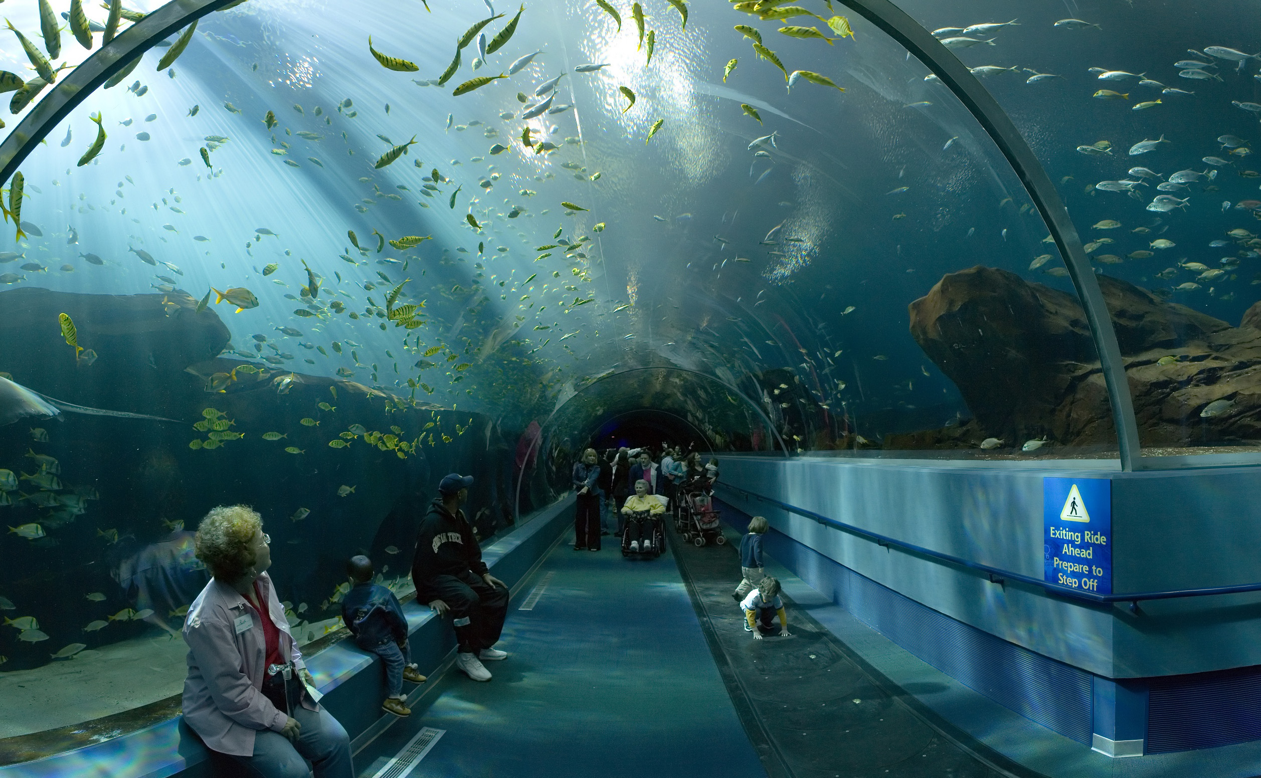 The Ocean Voyager exhibit tunnel. This image is a panorama of 3 stitched photos to give a greater angle of view. Taken by myself on January 23rd with a Canon 5D and 17-40mm f/4L.